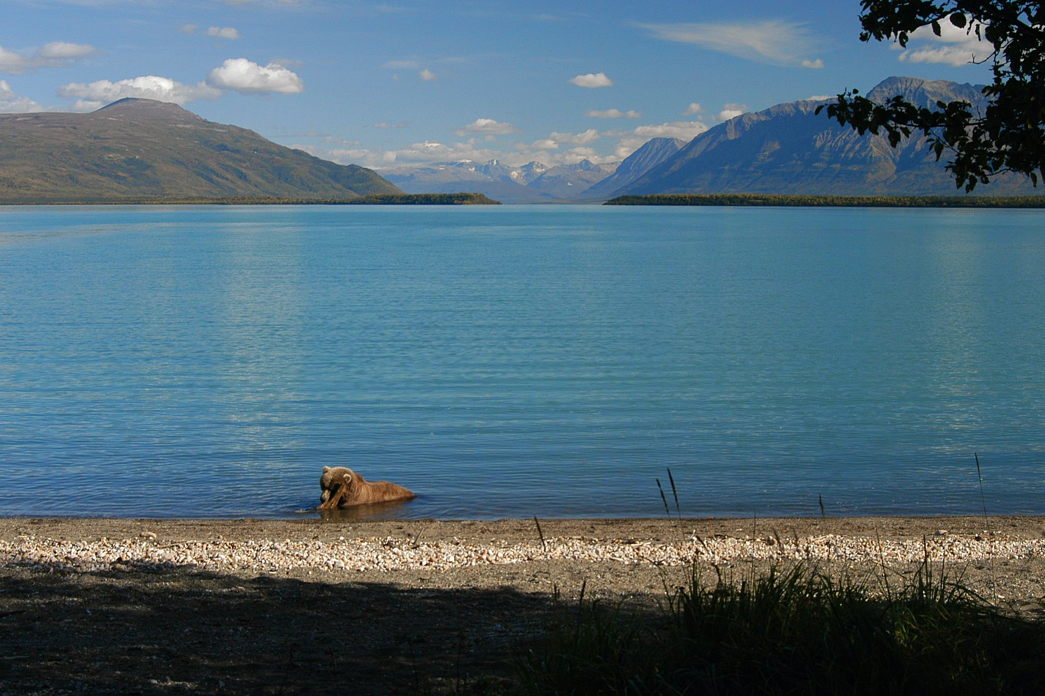 A brown bear plays with a stick near Brooks Camp Campground